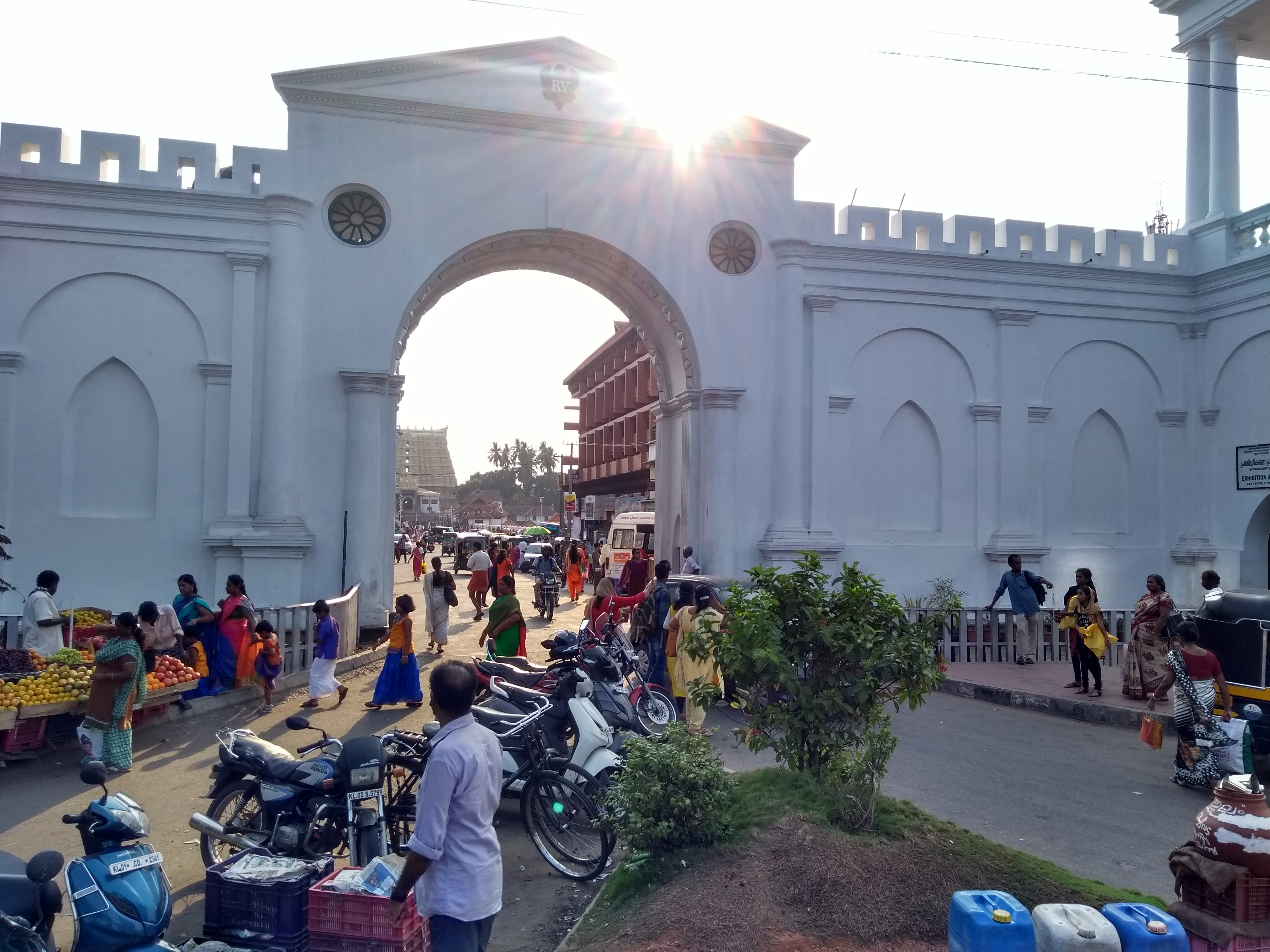 EAST FORT THIRUVANANTHAPURAM, KERALA, INDIA